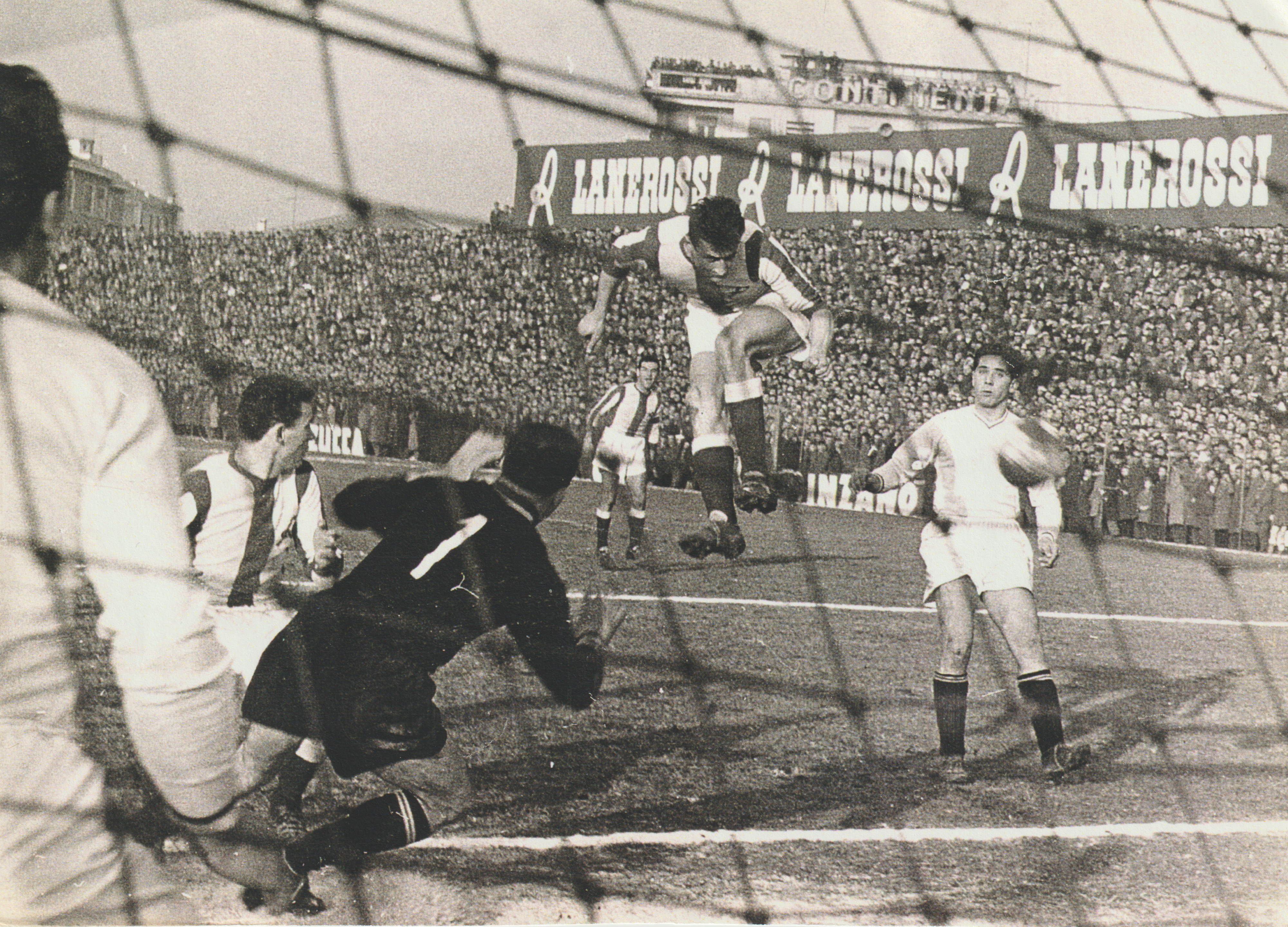 Giorgio De Marchi's header at Padova in Lanerossi Vicenza-Padova 1-2 of 9 March 1958 (Serie A 1957-1958)